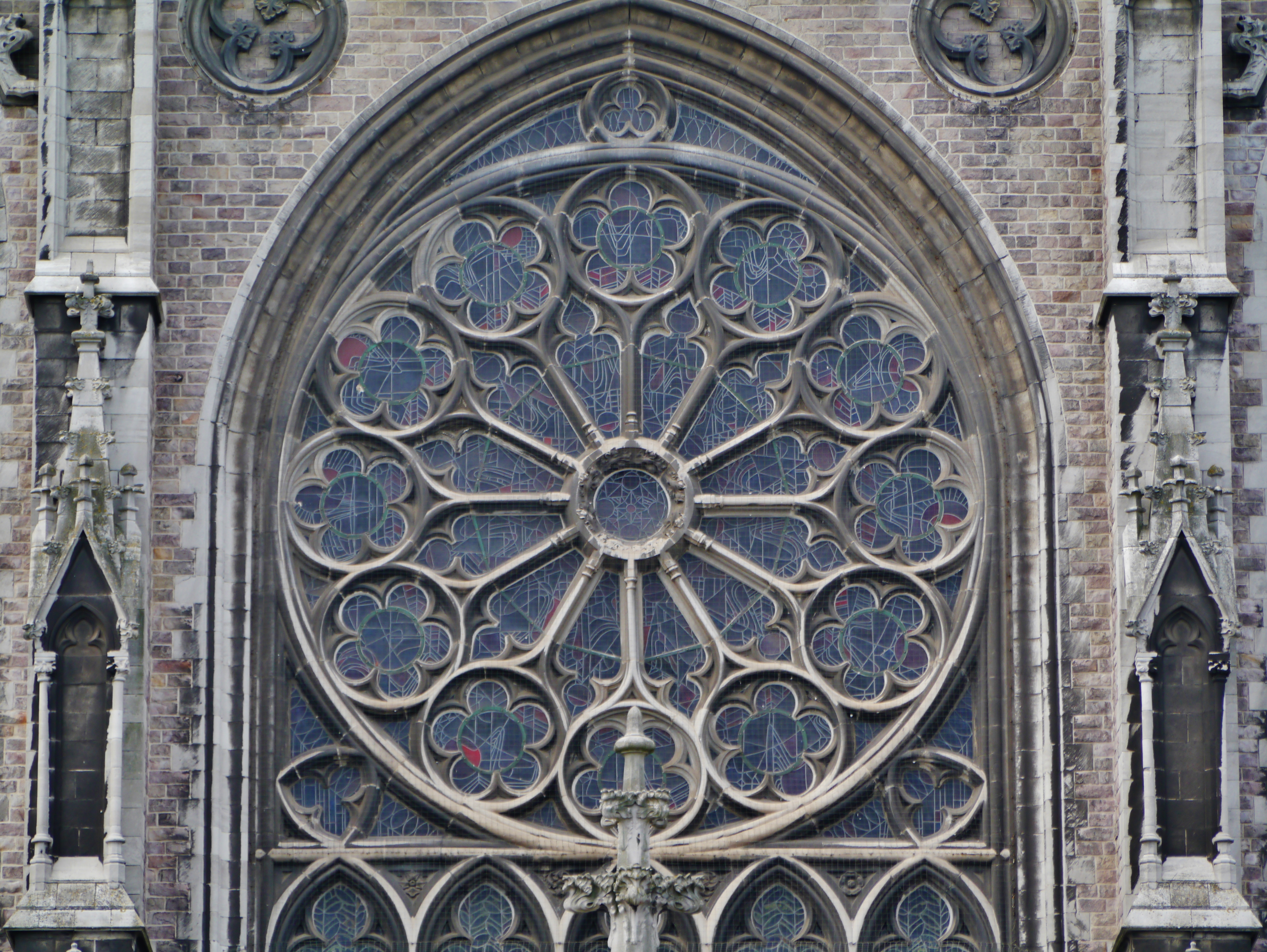 Rose Window of Sts. Peter & Paul, Oostende, Province of West Flanders, Flanders, Belgium